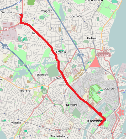 Map of the Copenhagen bus line 6A between Buddinge station and Nørreport Station as of 13 October 2019. This map may be incomplete, and may contain errors. Don't rely solely on it for navigation.